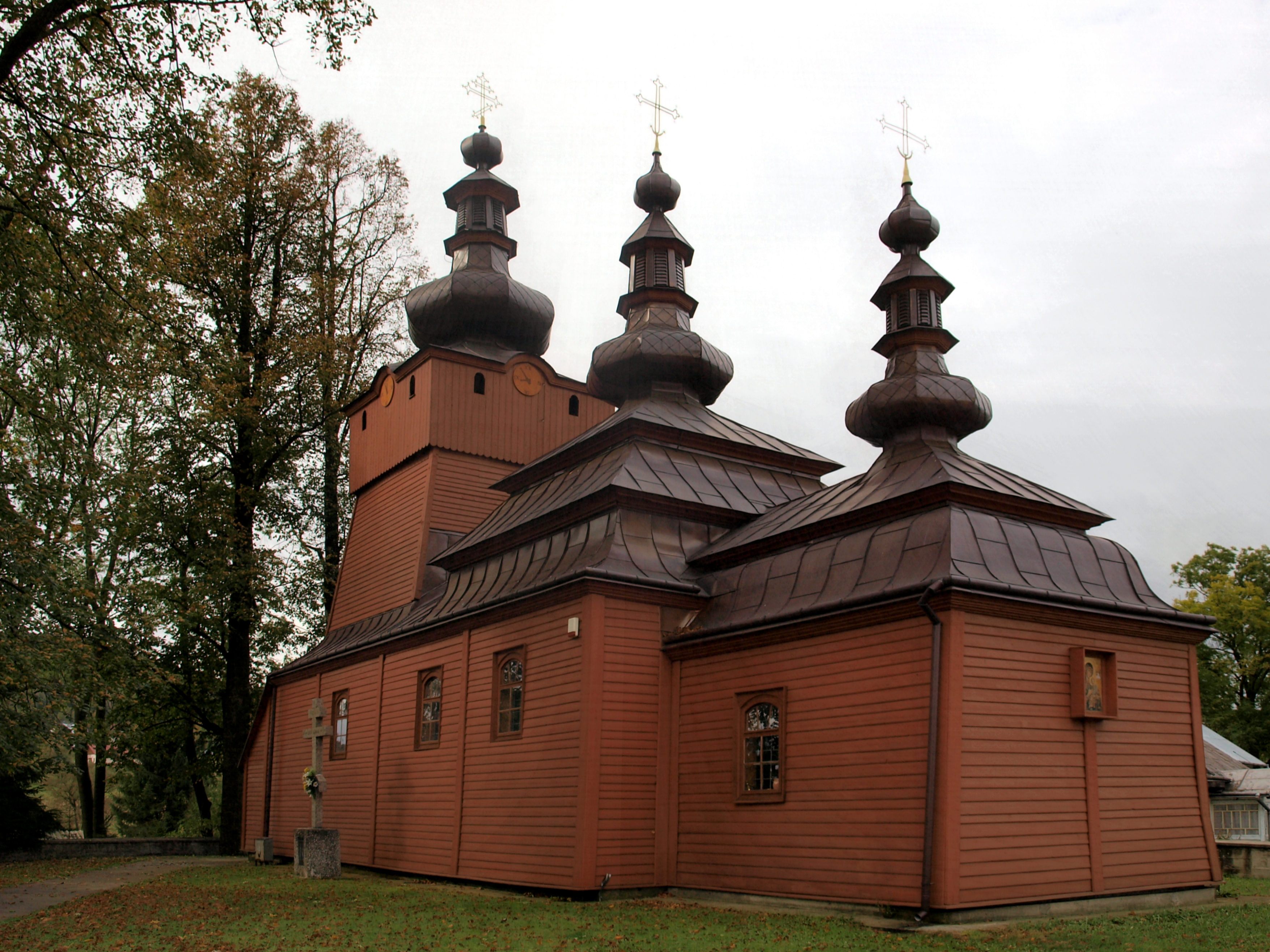 Wysowa-Zdrój - Orthodox church of Saint Michael the Archangel, south-east side